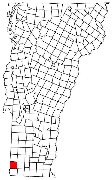 Map of Vermont towns with Bennington highlighted